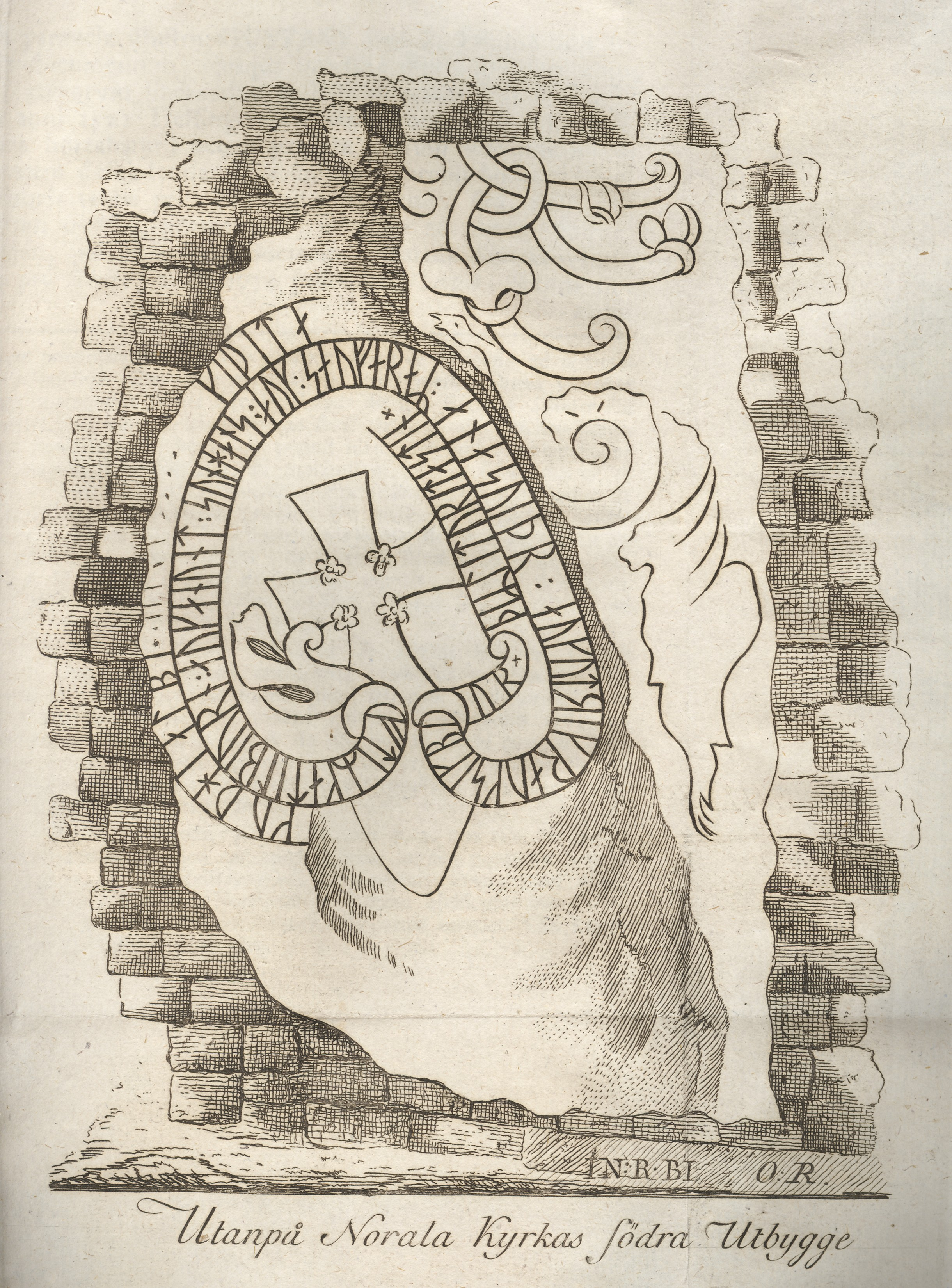 Johan David Flintenberg's engraving of the runestone in Norrala parish (province of Hälsingland, Sweden), printed in the second part of his Dissertatio historica de territorio australi Helsingiæ (Uppsala 1785). The engraving is a reproduction of a drawing made by Olof Rehn in 1763. The original drawing is archived as no. 88 in »Samling af Ritningar, Gravurer och Beskrifningar, öfver större delen, af de til Swerige hörande Provincers Märkvärdigheter och Antiquiteter», vol. F.m. 18, Kungliga Biblioteket (the Royal Library), Stockholm.